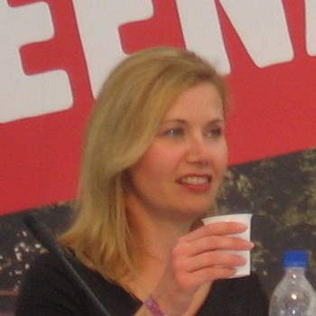 Leena Mörttinen at the SuomiAreena 2009 event in Pori, Finland.